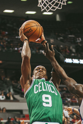 detroit pistons v. boston celtics 1/20/13